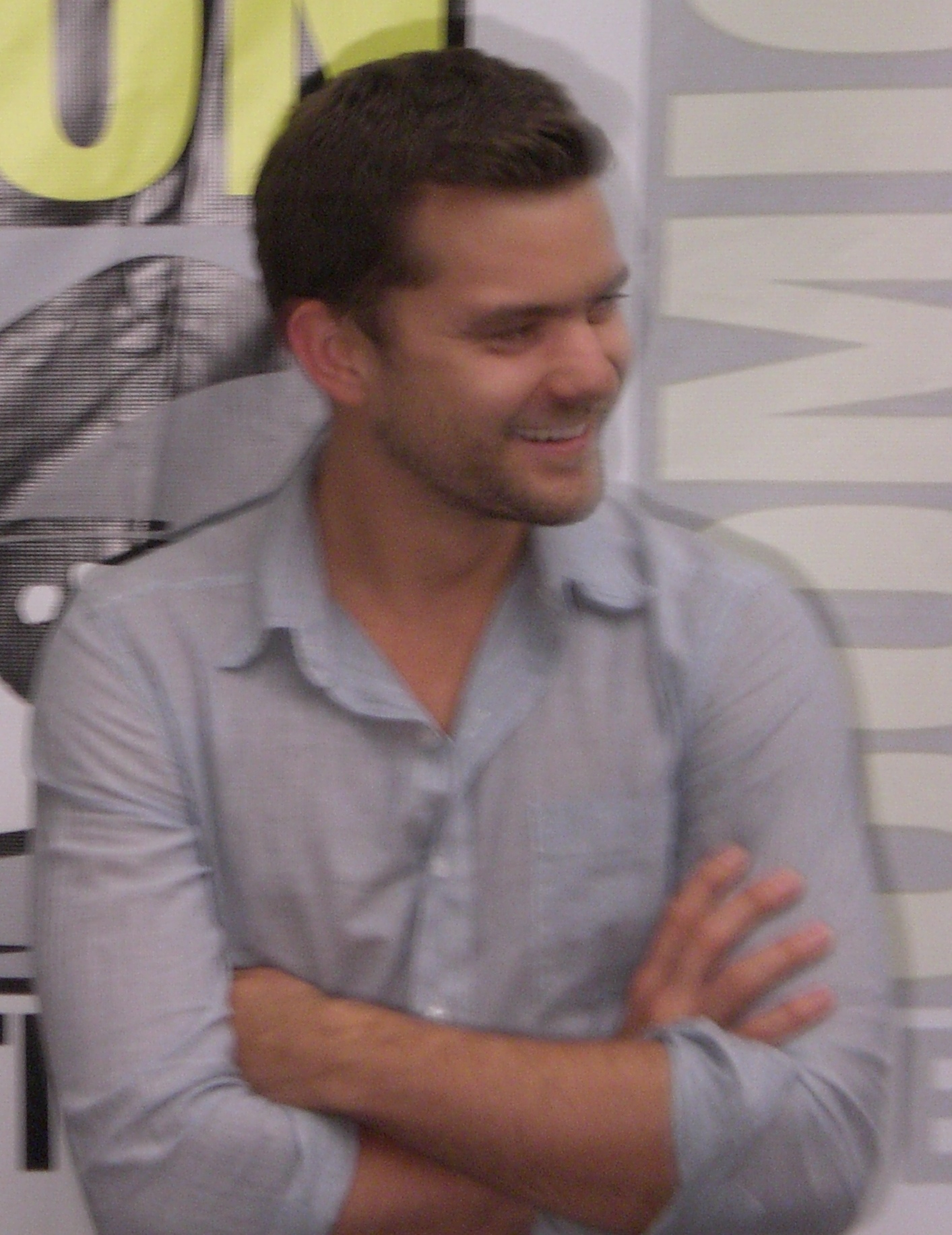 Joshua Jackson